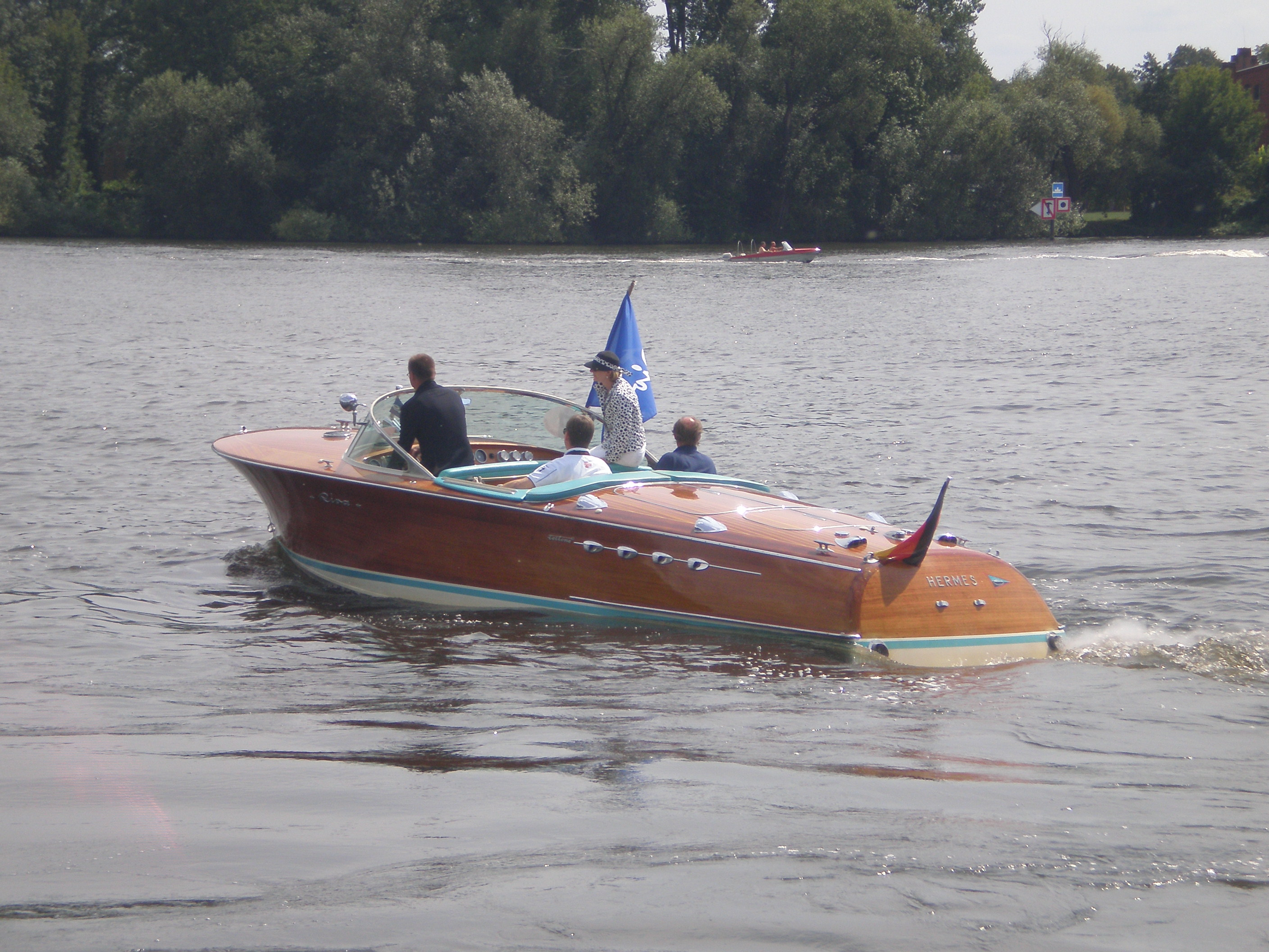 Riva Tritone No. 258 - The "Hermes", bought by the german publisher Axel Springer and delivered in 1967, is the last unit of this model that has been crafted.